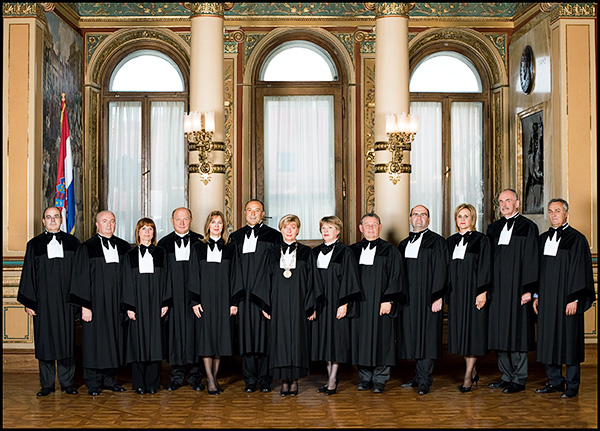 Judges of the Constitutional Court of Croatia